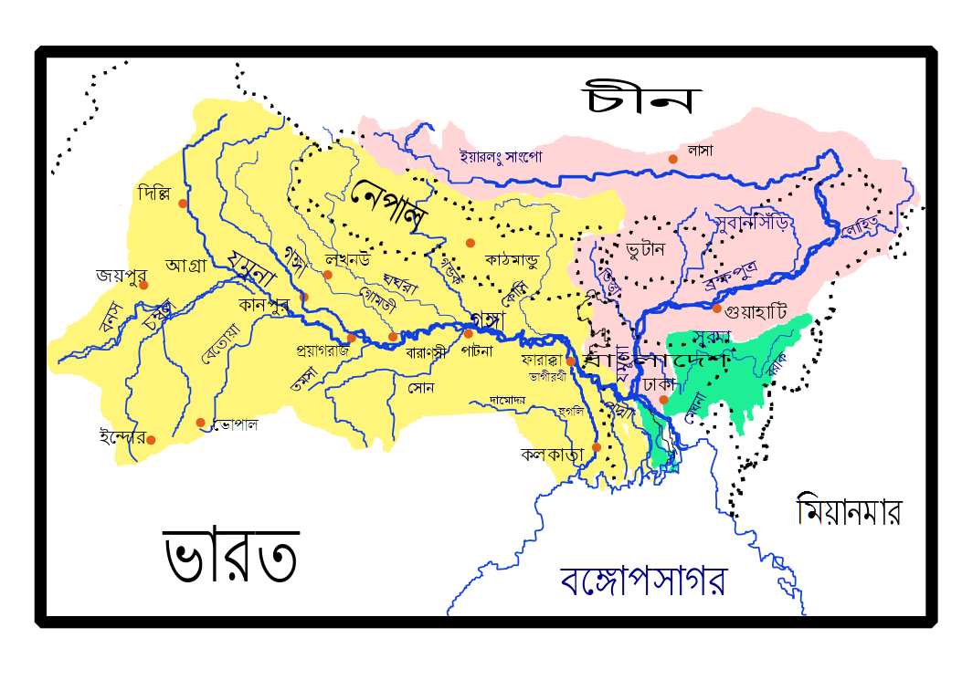 GangesBramhaputraMeghnaBasin Bengali